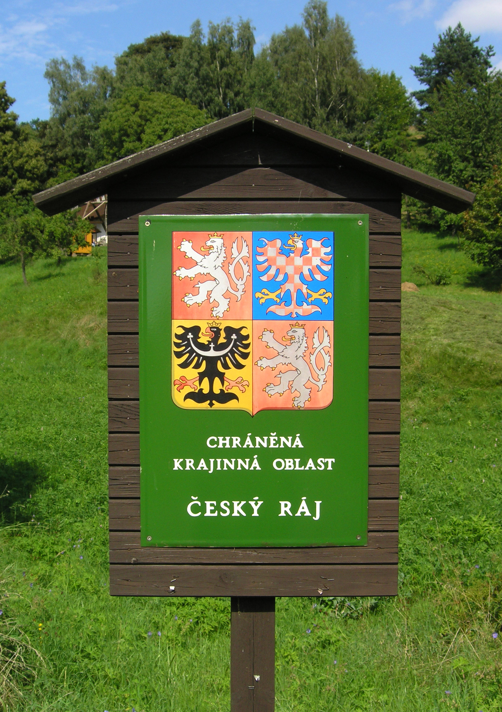 Marking of Český ráj landscape protected area, Czech Republic